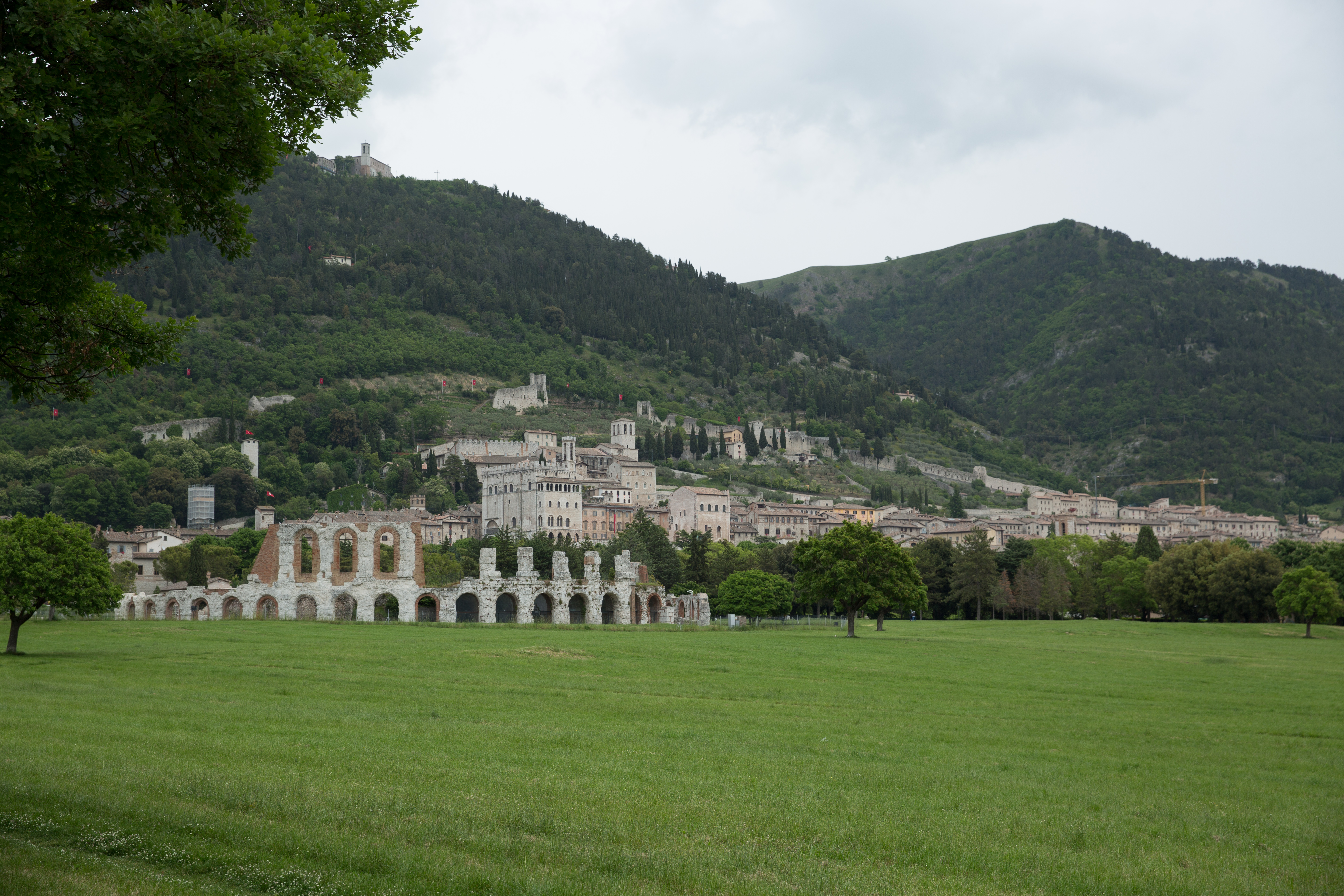 view of the old town from Viale Parruccini